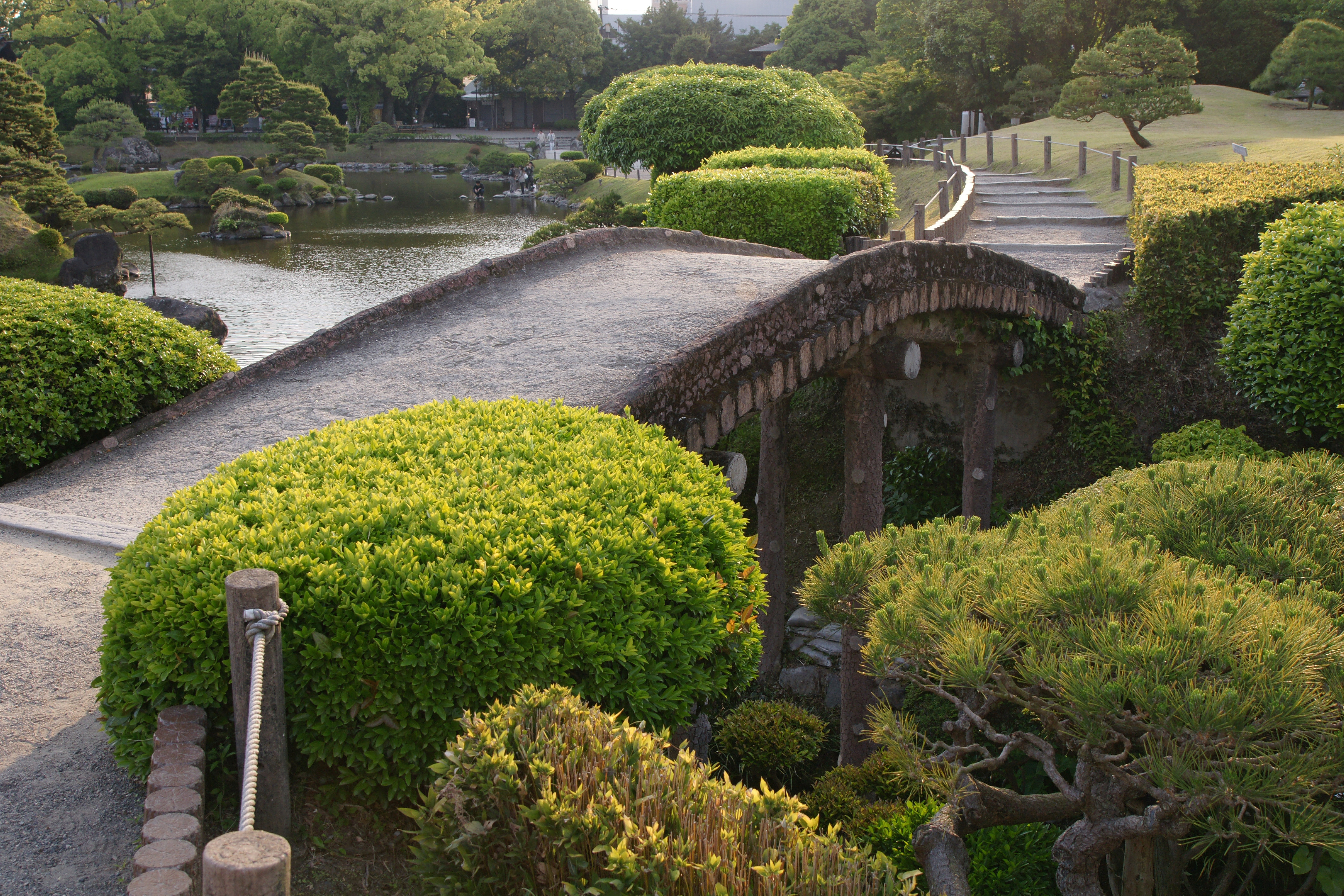 Suizenji-jojuen, Kumamoto, Kumamoto prefecture, Japan